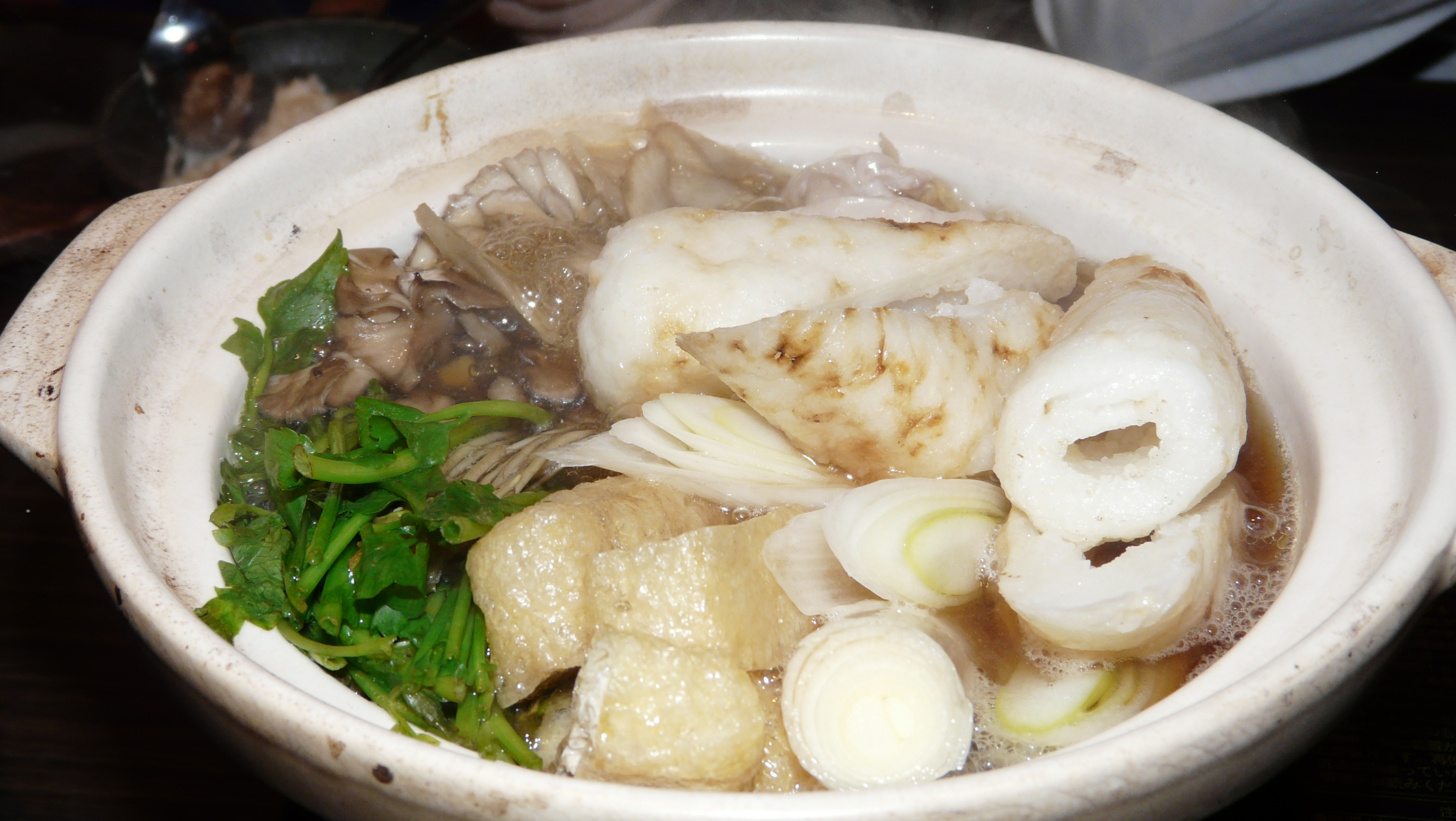 kiritanpo nabe, akita